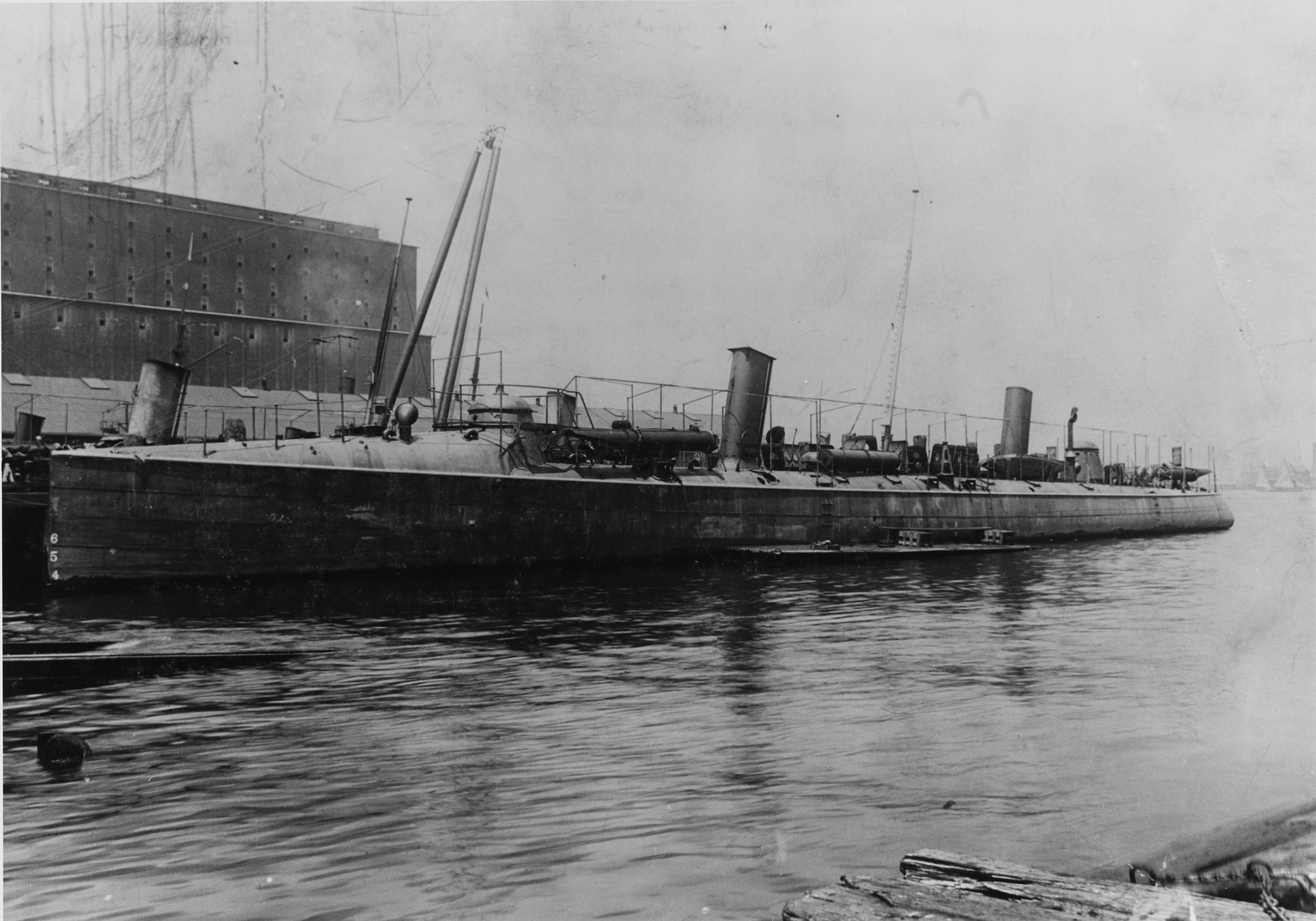 USS Rodgers (TB-4) photographed circa 1897-98. U.S. Naval History and Heritage Command Photograph.